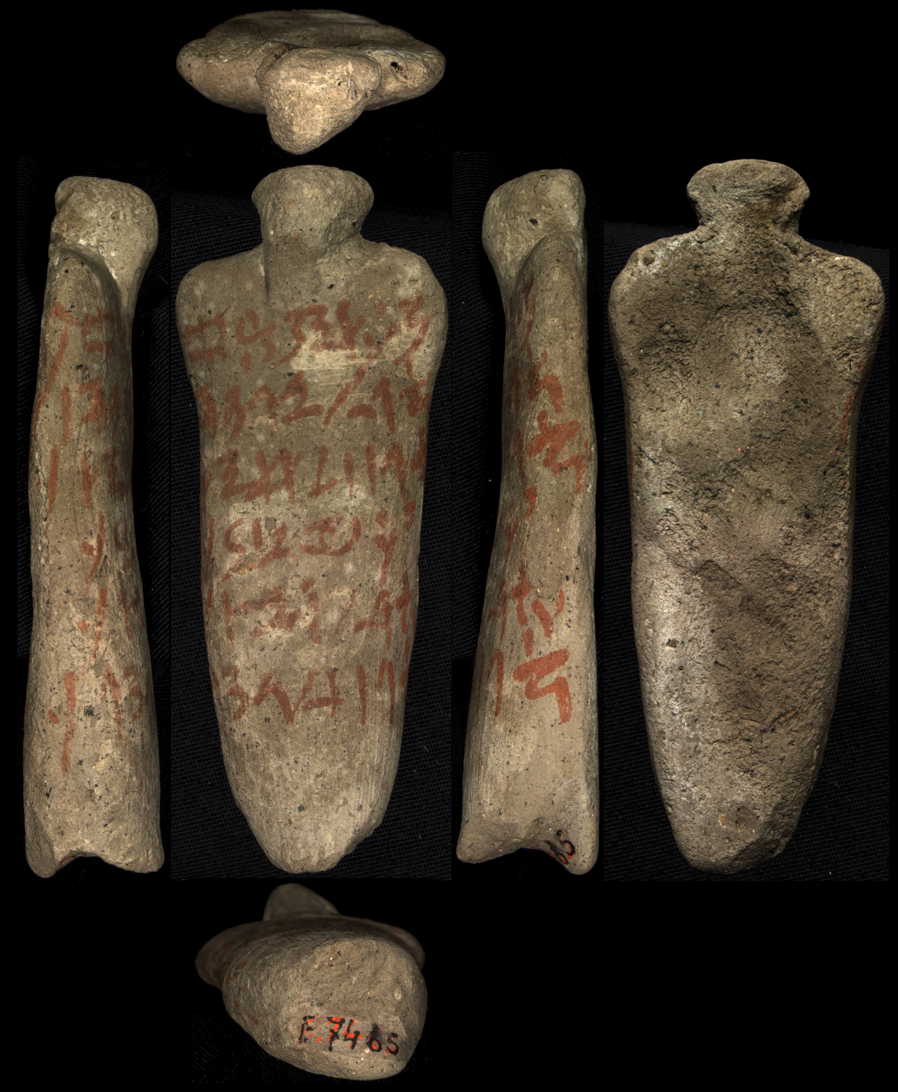 Egyptian Execration Figurine from the Royal Museums of Art and History in Brussels (E.7465)